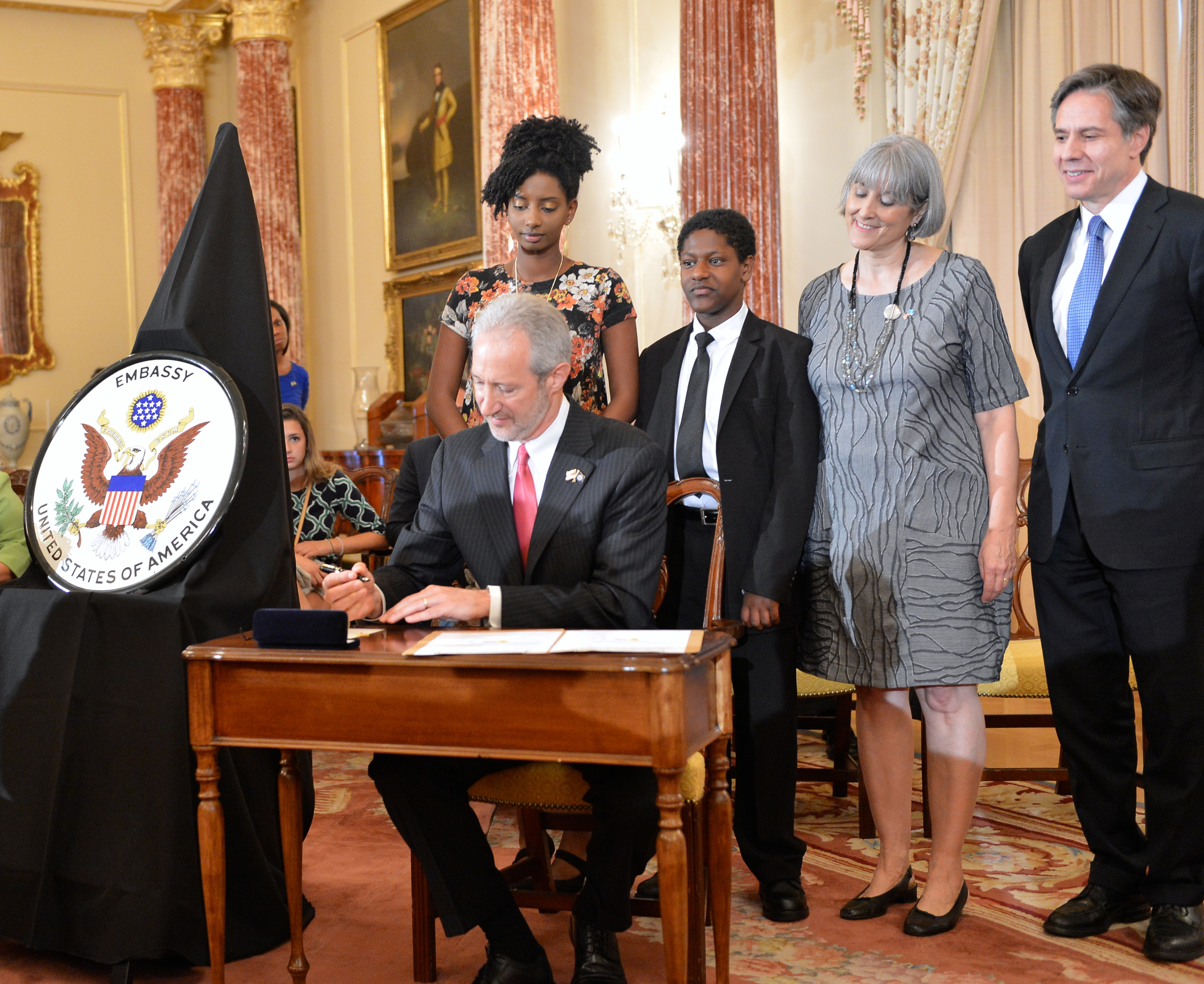 With his family and Deputy Secretary Antony “Tony” Blinken looking on, Stephen Schwartz signs his appointment papers to become the next U.S. Ambassador to Somalia at a ceremony in his honor at the U.S. Department of State in Washington, D.C., on July 27, 2016. [State Department photo/ Public Domain]